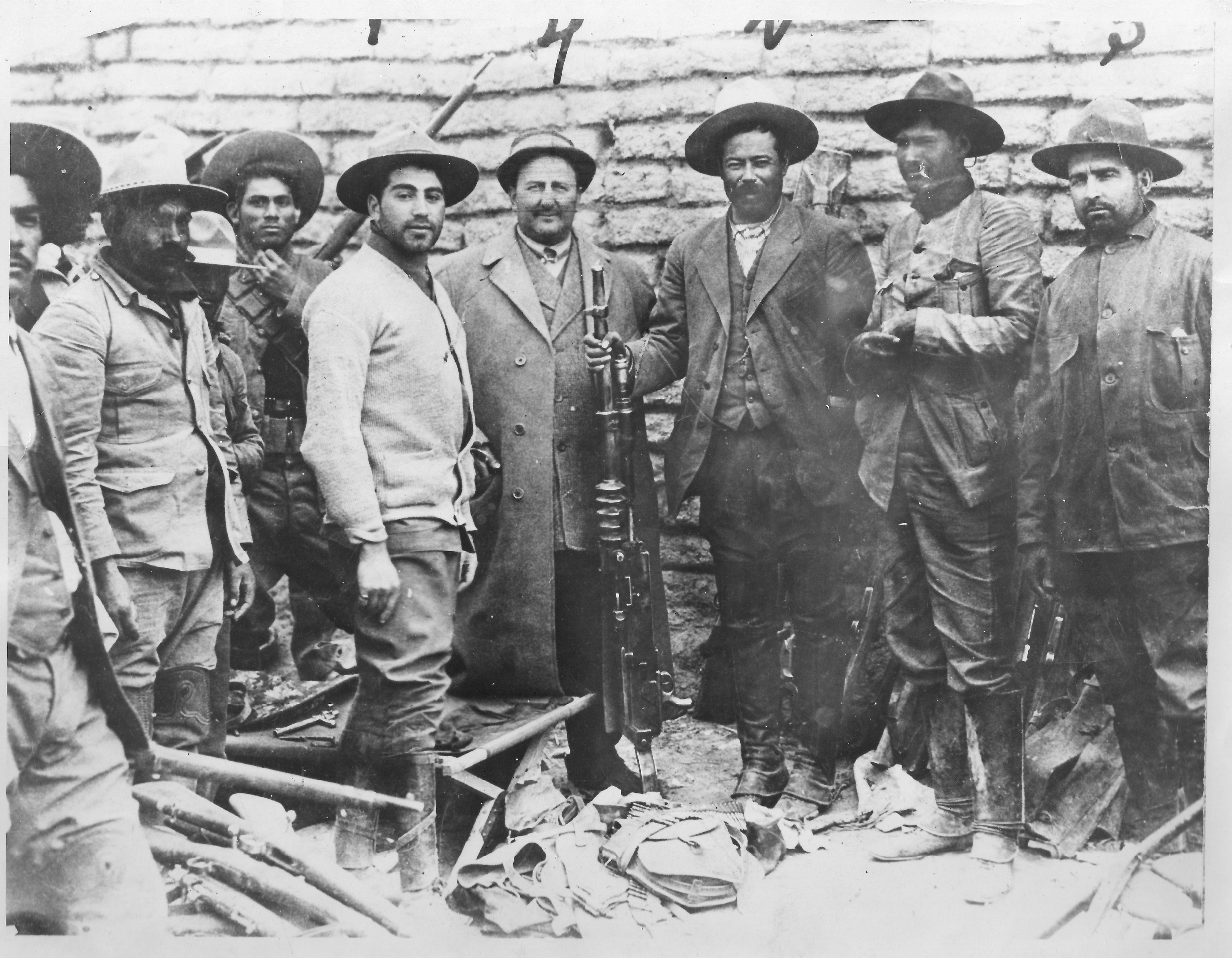 Capt. Carl von Hoffman, 5th from left in cardigan. Pancho Villa, third from right holding machine gun